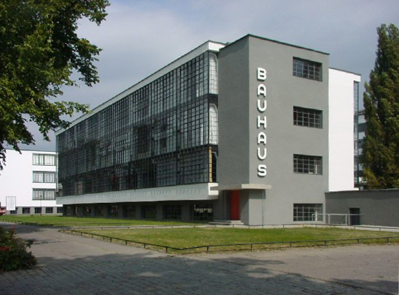 The Bauhaus Building in Dessau, Germany; image taken in 2003.